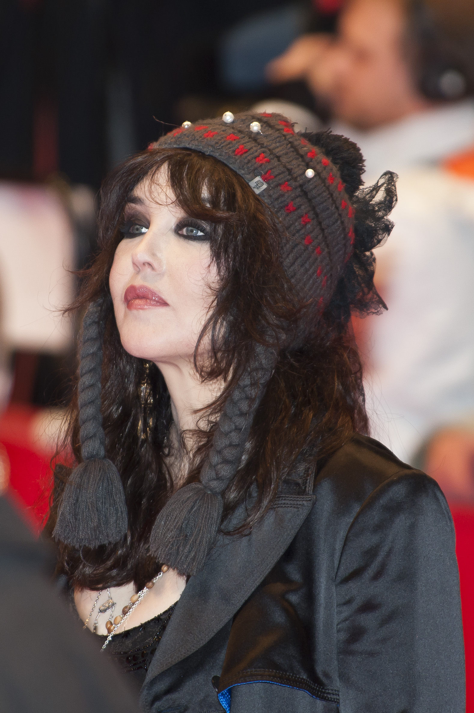 French actress Isabelle Adjani at the premiere of "MAMMUTH" at the Berlinale Palast, February 19th, 2010